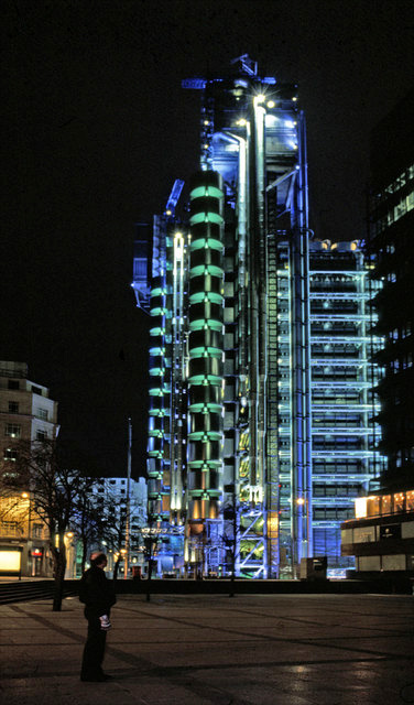 Lloyds Building, Lime Street, London, England